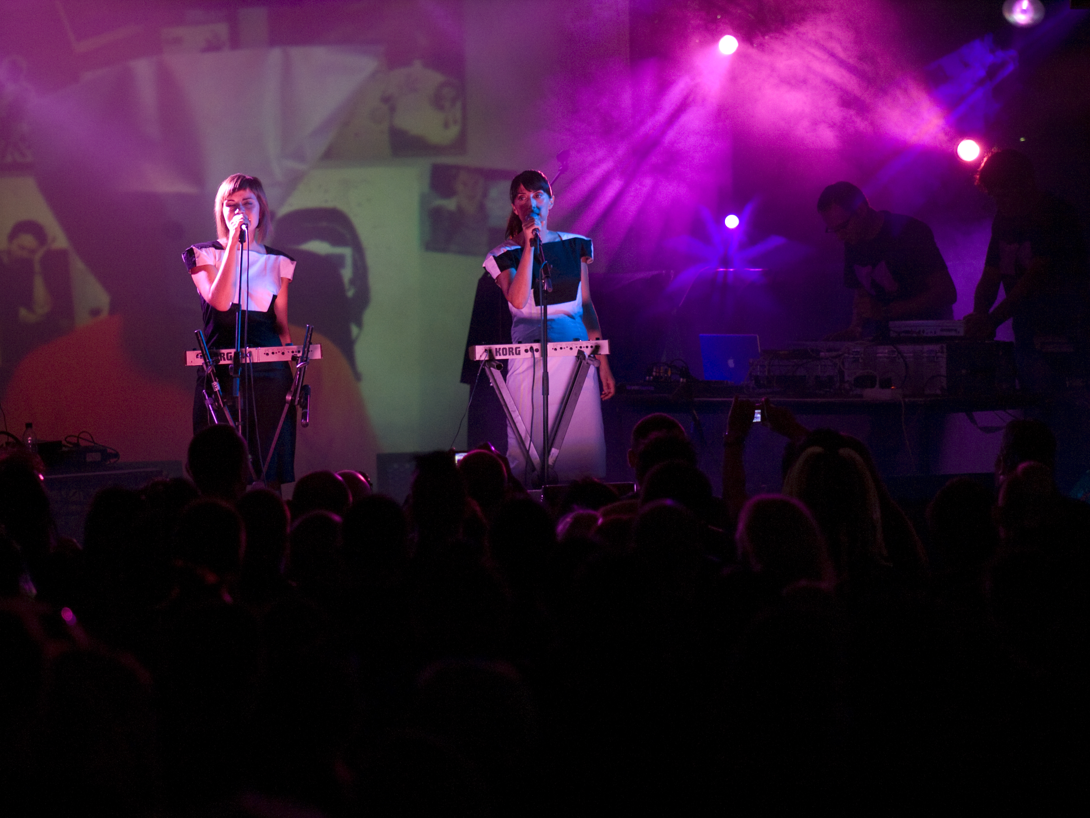 Greek synthpop duo Marsheaux at Infest 2008 Venue: University of Bradford Students' Union, Bradford, West Yorks, UK Date: 22th - 24th August 2008